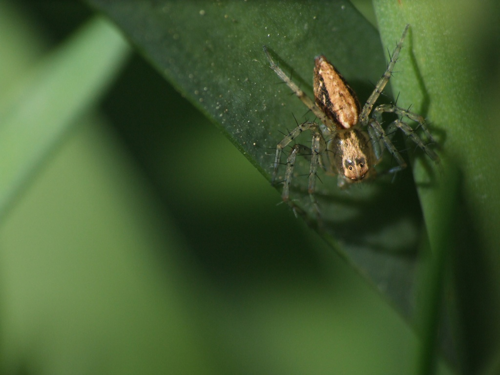 Oxyopes sp., Lynx spider